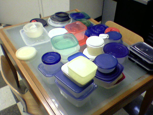 Lots of Tupperware